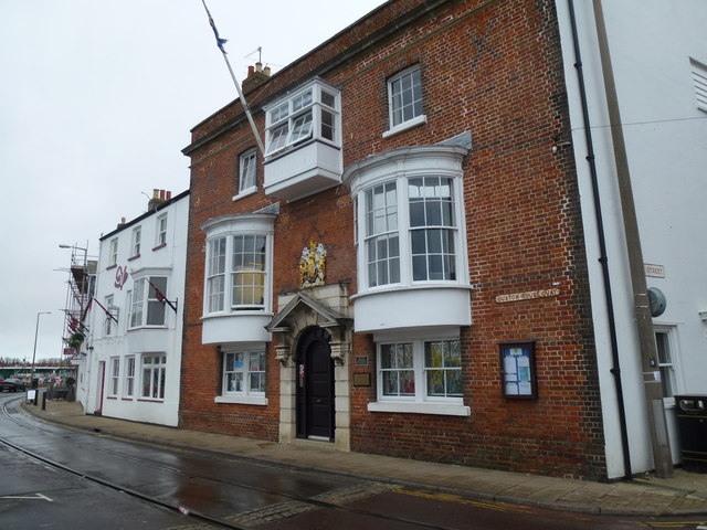 The Custom House and disused rail track, Weymouth